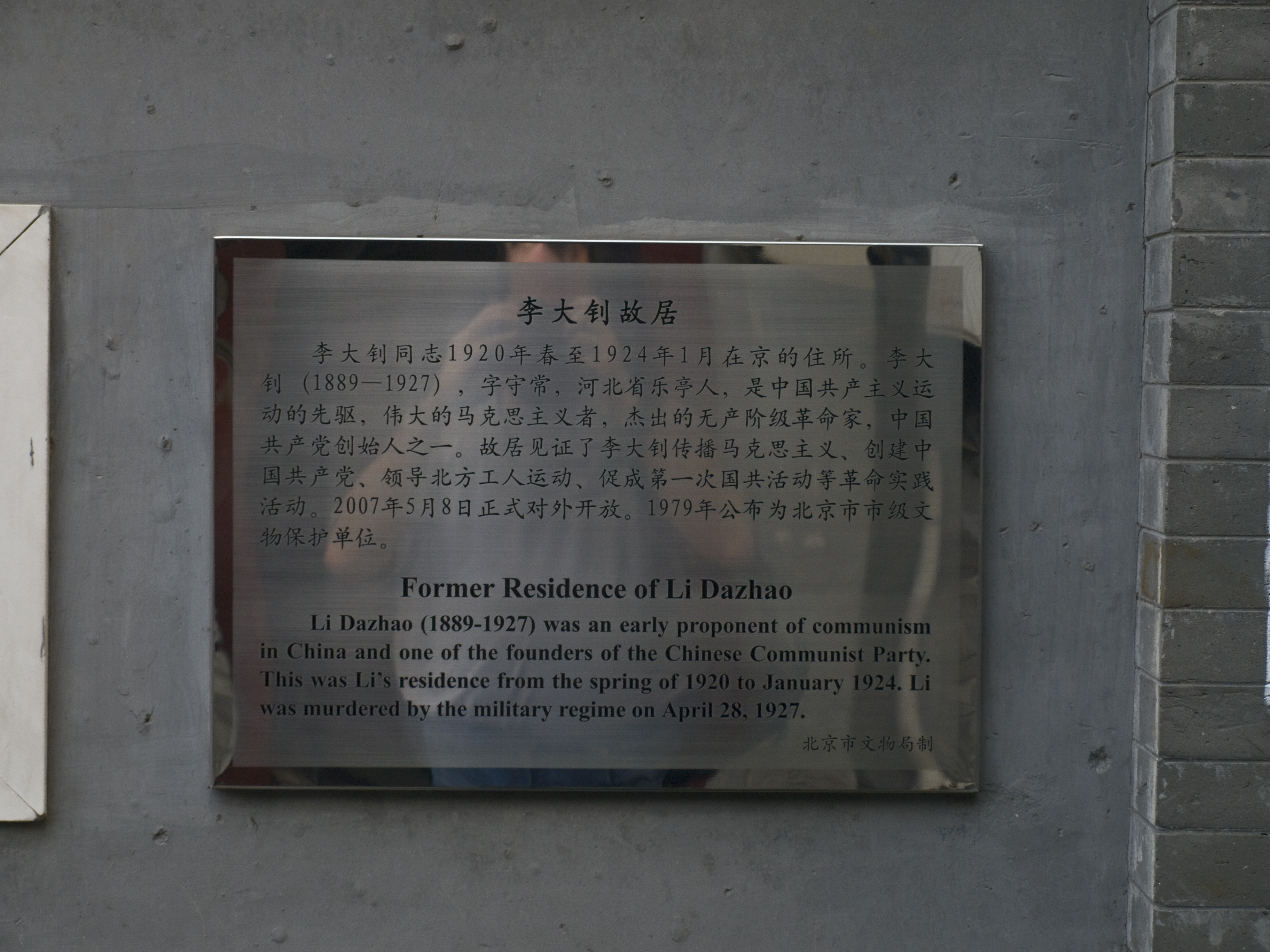 Li Dazhao museum, 24 Wenchang Hutong